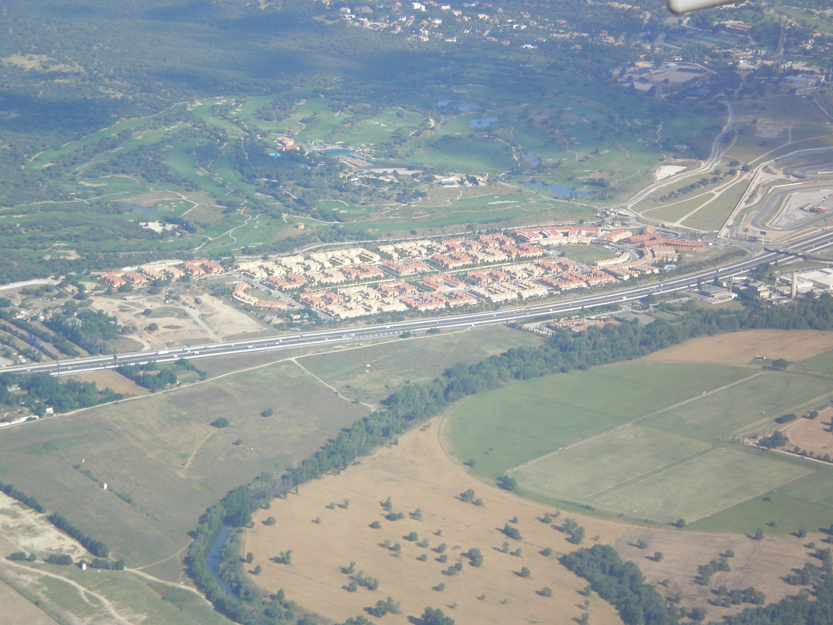 Club de Campo, a neighbourhood in San Sebastián de los Reyes, Madrid, España. Jarama circuit, river Jarama, Highway A-1, a golf course and Mount Pesadilla can also be seen.